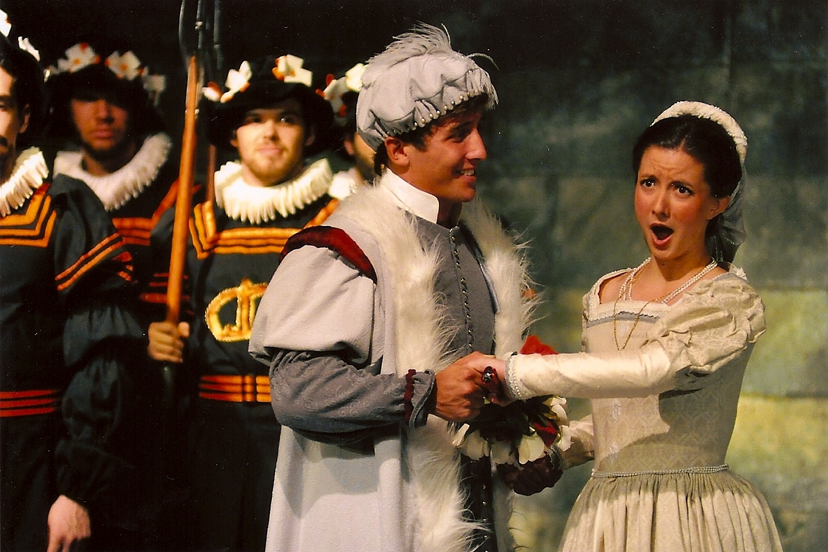 CLOC Production of The Yeomen of the Guard at the Highfield Theatre